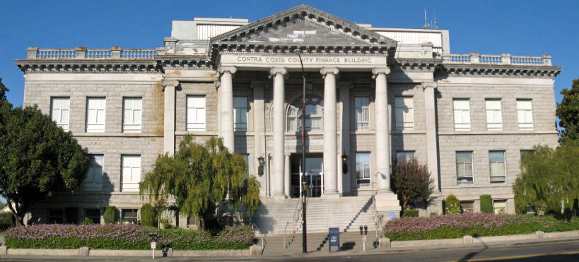 National Register of Historic Places listings in Contra Costa County, California. Contra Costa County Courthouse, 625 Court St., Martinez, California, USA. Now the Contra Costa County Finance Building. Photographed 2008-09-14 from the west side of Court St. between Escobar and Main Sts.